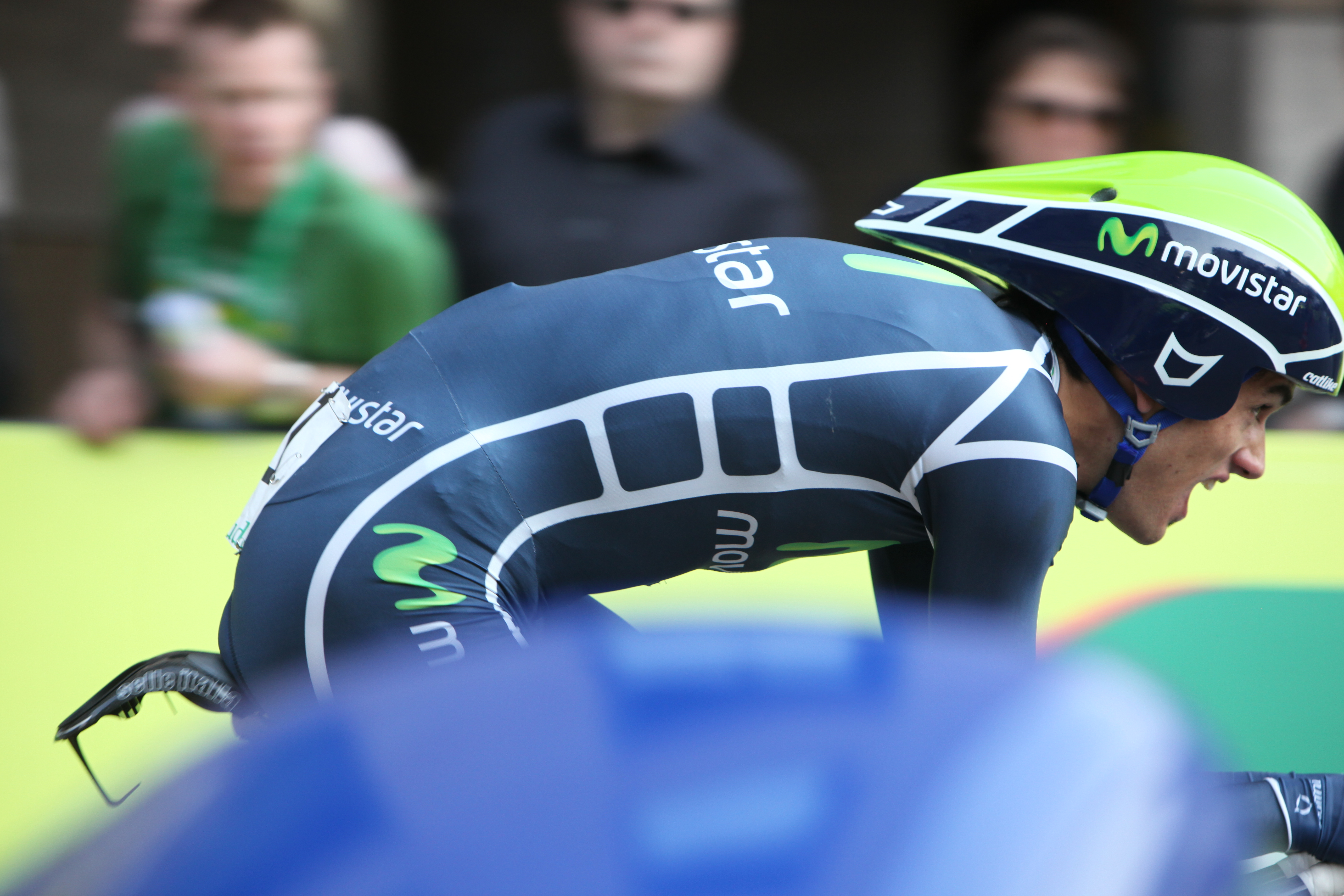 Benat Intxausti at the prologue of the Tour de Romandie 2011